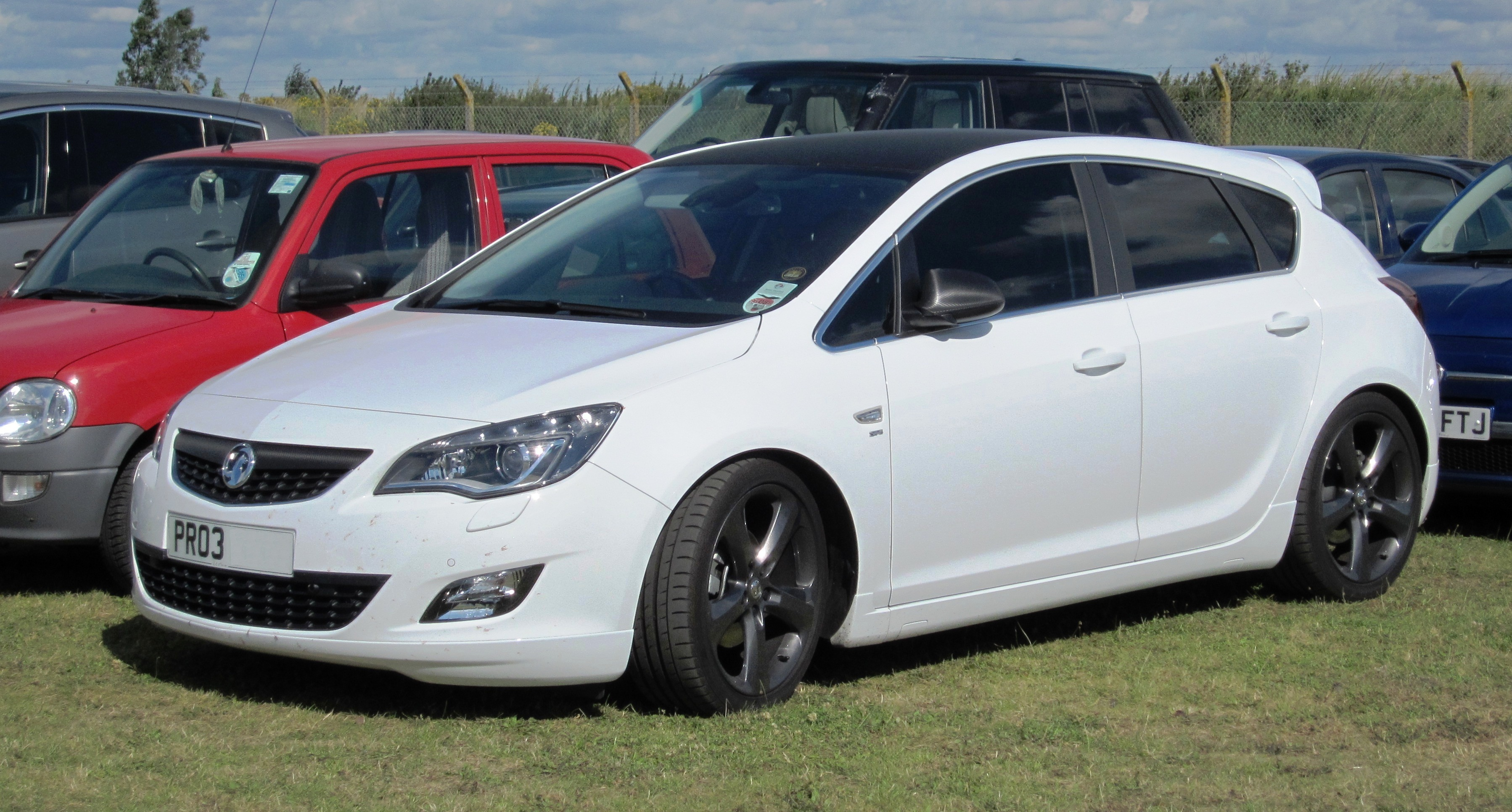 Vauxhall Astra Mark 6 (lowered) at Snetterton